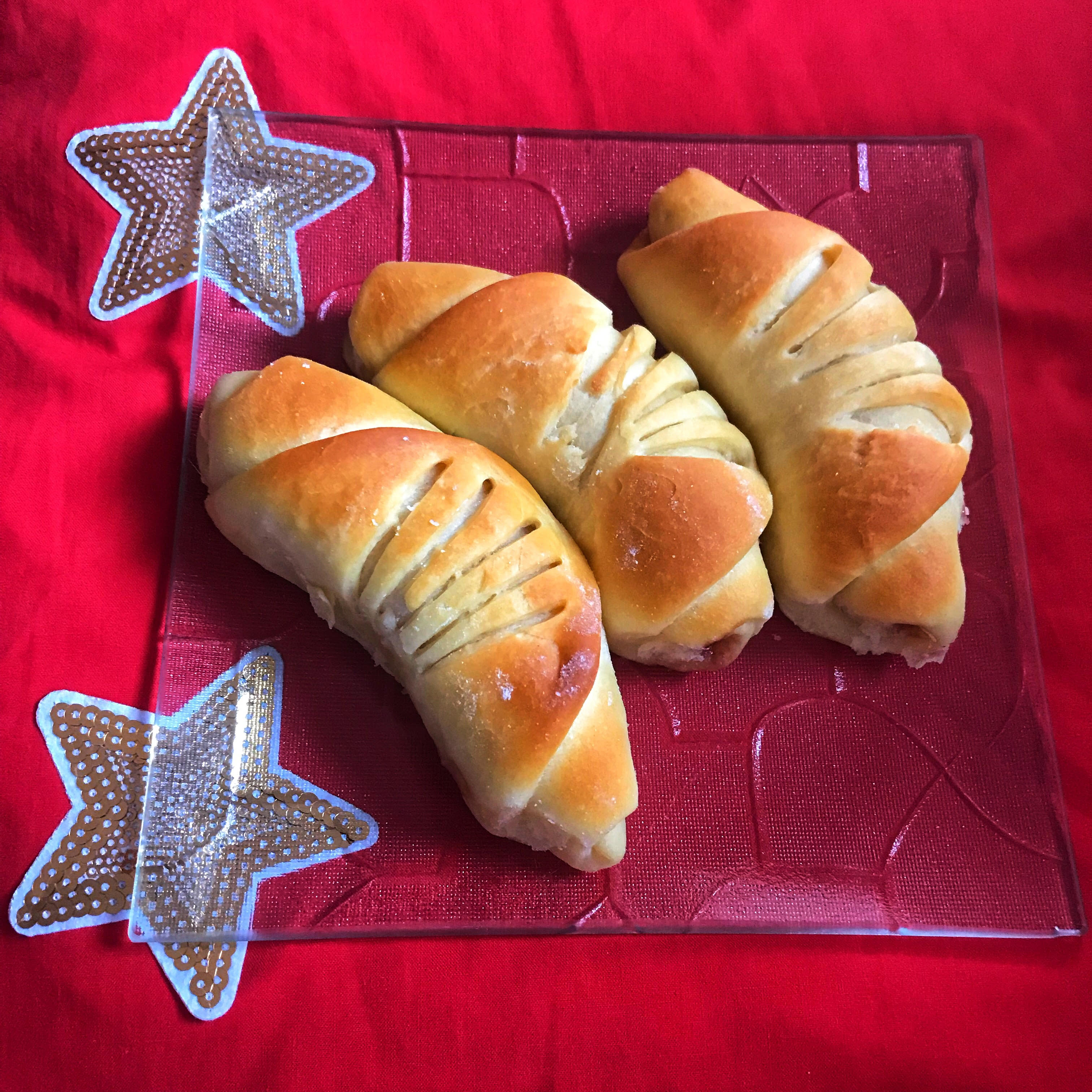 Homemade pastry with plum jam